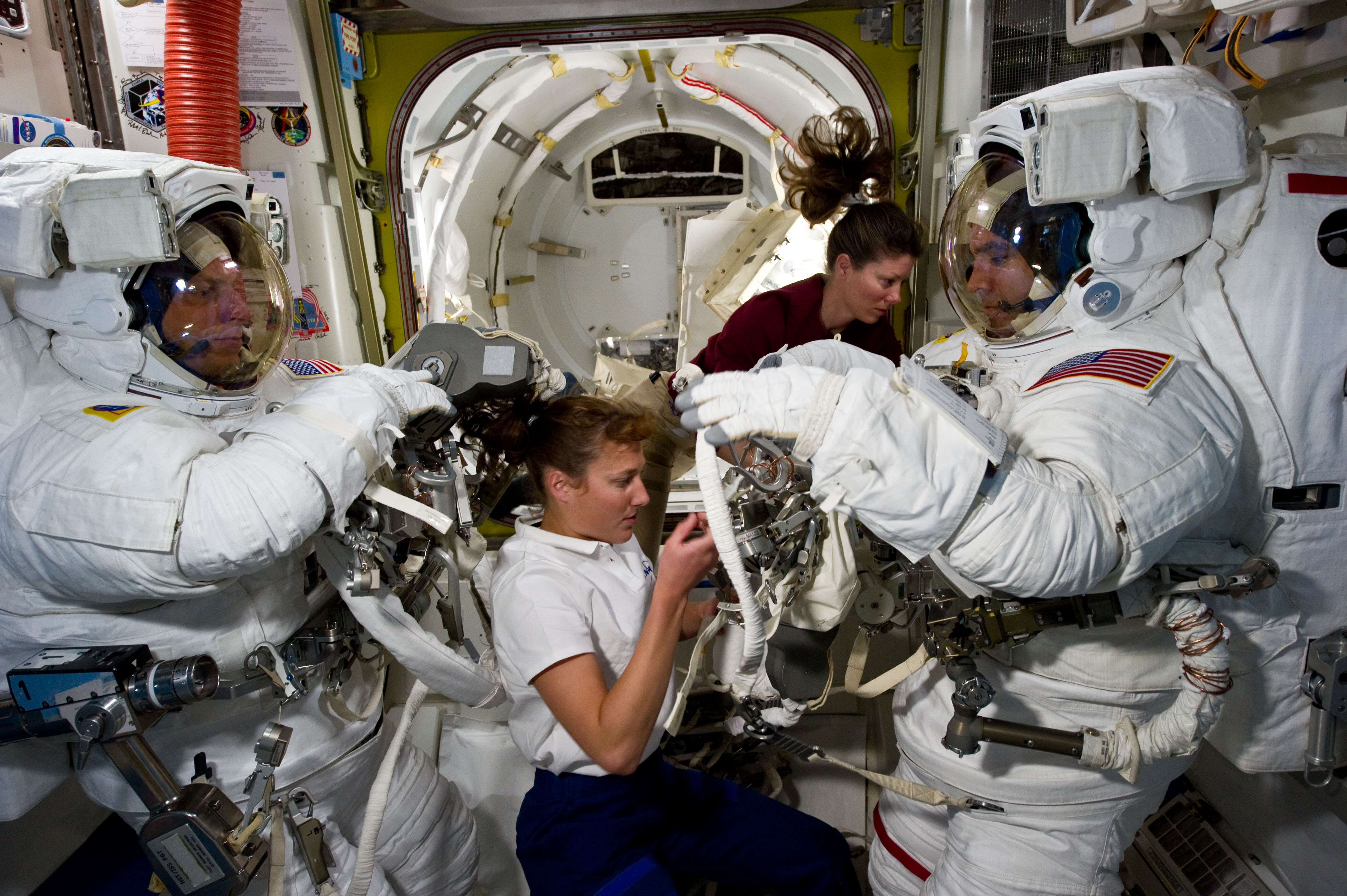 NASA astronauts Clayton Anderson (left) and Rick Mastracchio, both STS-131 mission specialists, attired in their Extravehicular Mobility Unit (EMU) spacesuits; along with astronauts Dorothy Metcalf-Lindenburger (center), mission specialist; and Tracy Caldwell Dyson, Expedition 23 flight engineer, are pictured in the Quest airlock of the International Space Station prior to the start of the mission's third and final spacewalk.